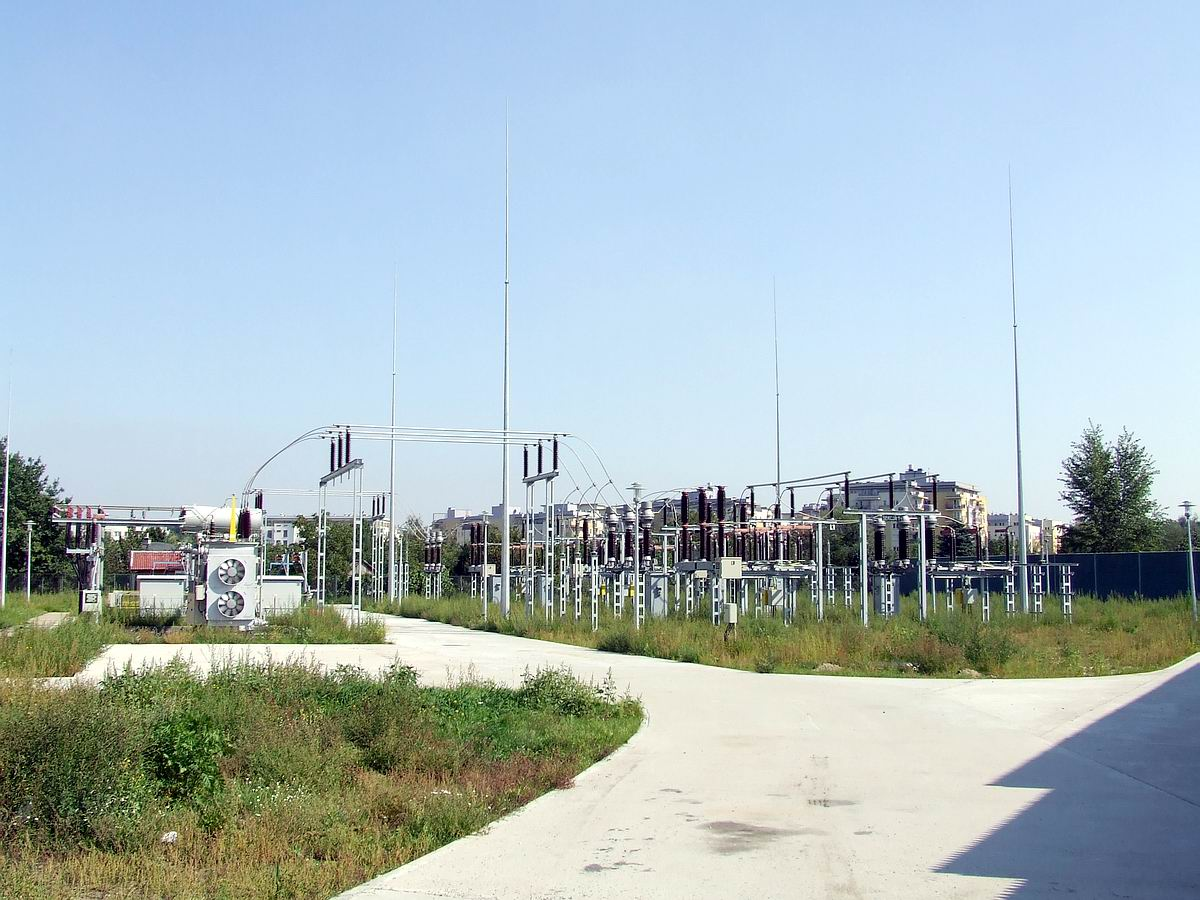 Power grids